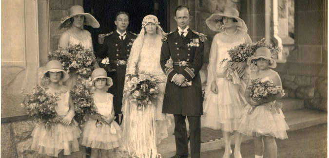 Dola Frances, the youngest of James and Laura Dunsmuir's ten children, married Lieutenant-Commander Henry James Francis Cavendish on Aug. 11, 1928. The above photograph was taken under Hatley Castle's porte cochere prior to their departure to Christ Church Cathedral in Victoria, where the young adoring bride and the naval hero had a lavish ceremony.